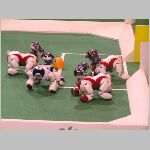 Game of the 4-leggued league - Robocup 2004 Source: self-made